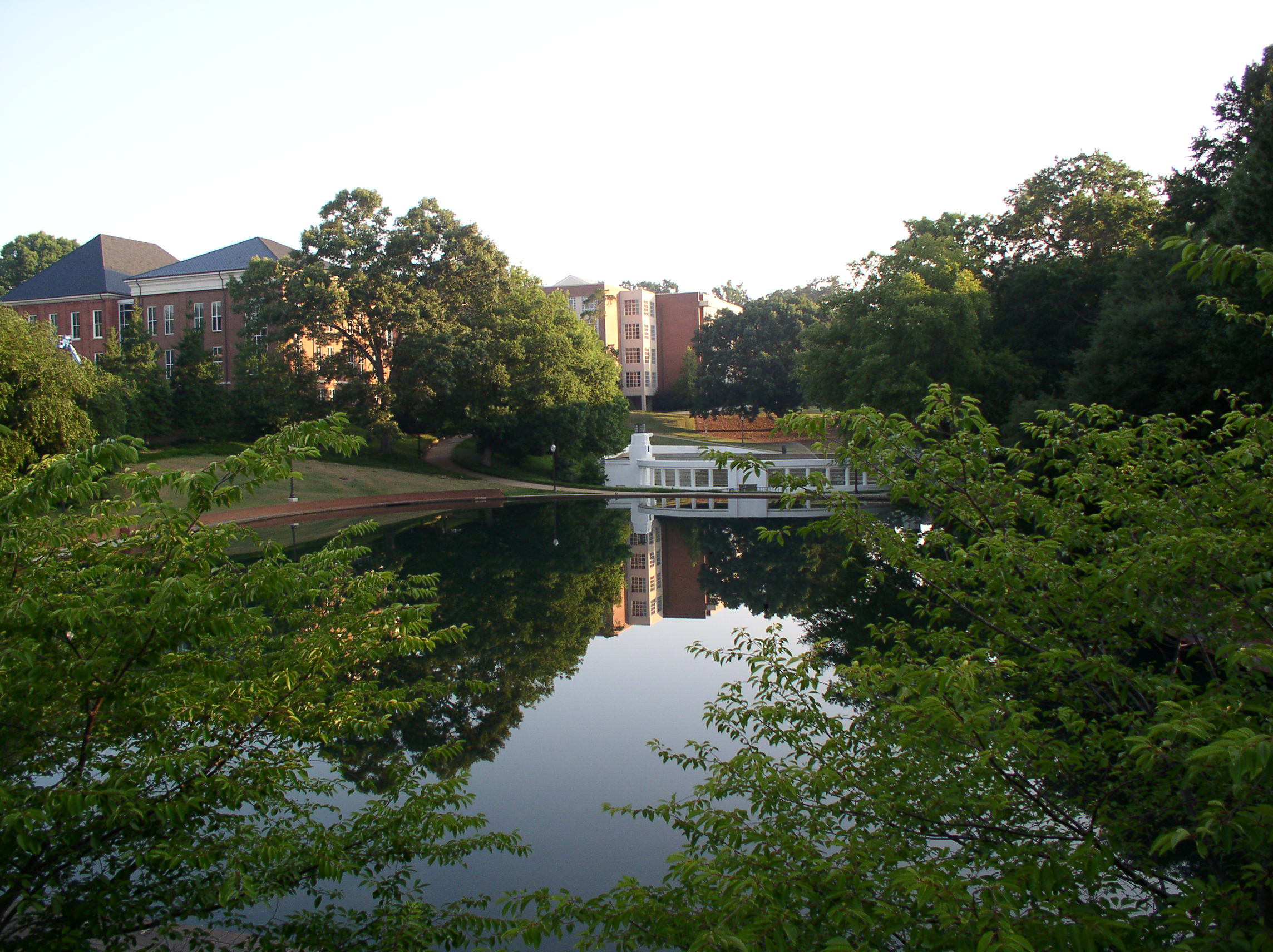 Early morning view of amphitheatre and buildings reflected in pond at Clemson University